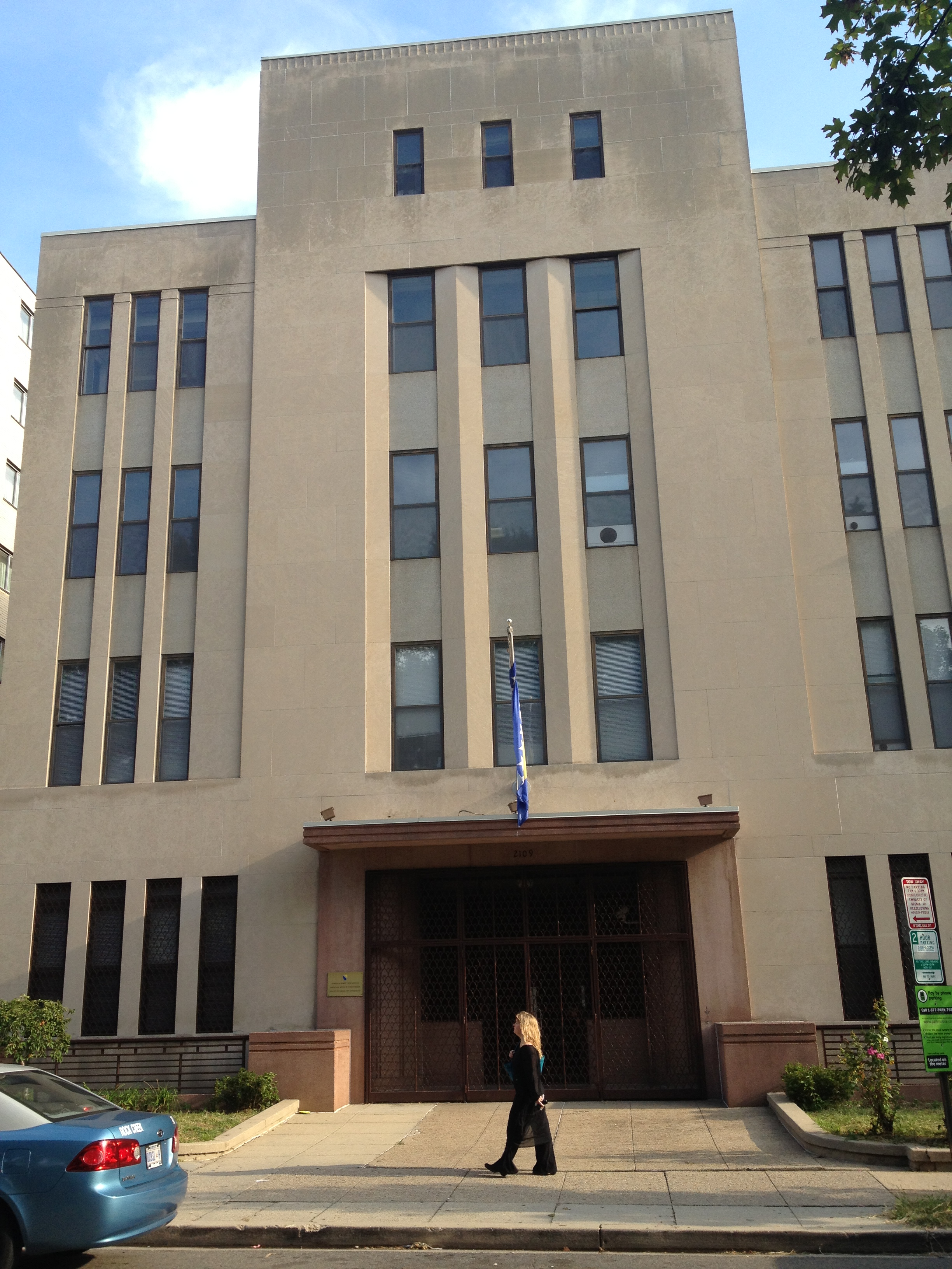 The exterior of the Embassy of Bosnia and Herzegovina in Washington, 2109 E Street, NW Washington, D.C., 20037. Photo taken from E Street facing north.